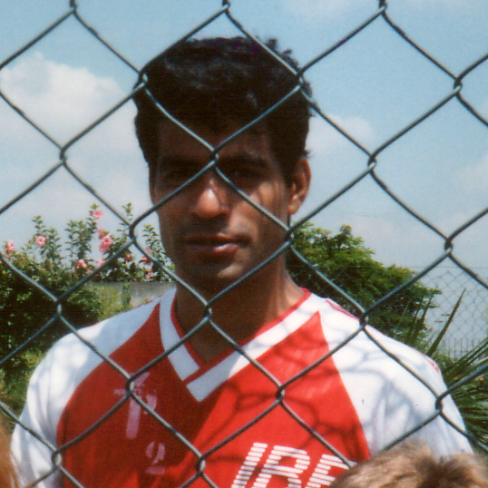 Raí Souza Vieira de Oliveira, better known as Raí, was a Brazilian football player.